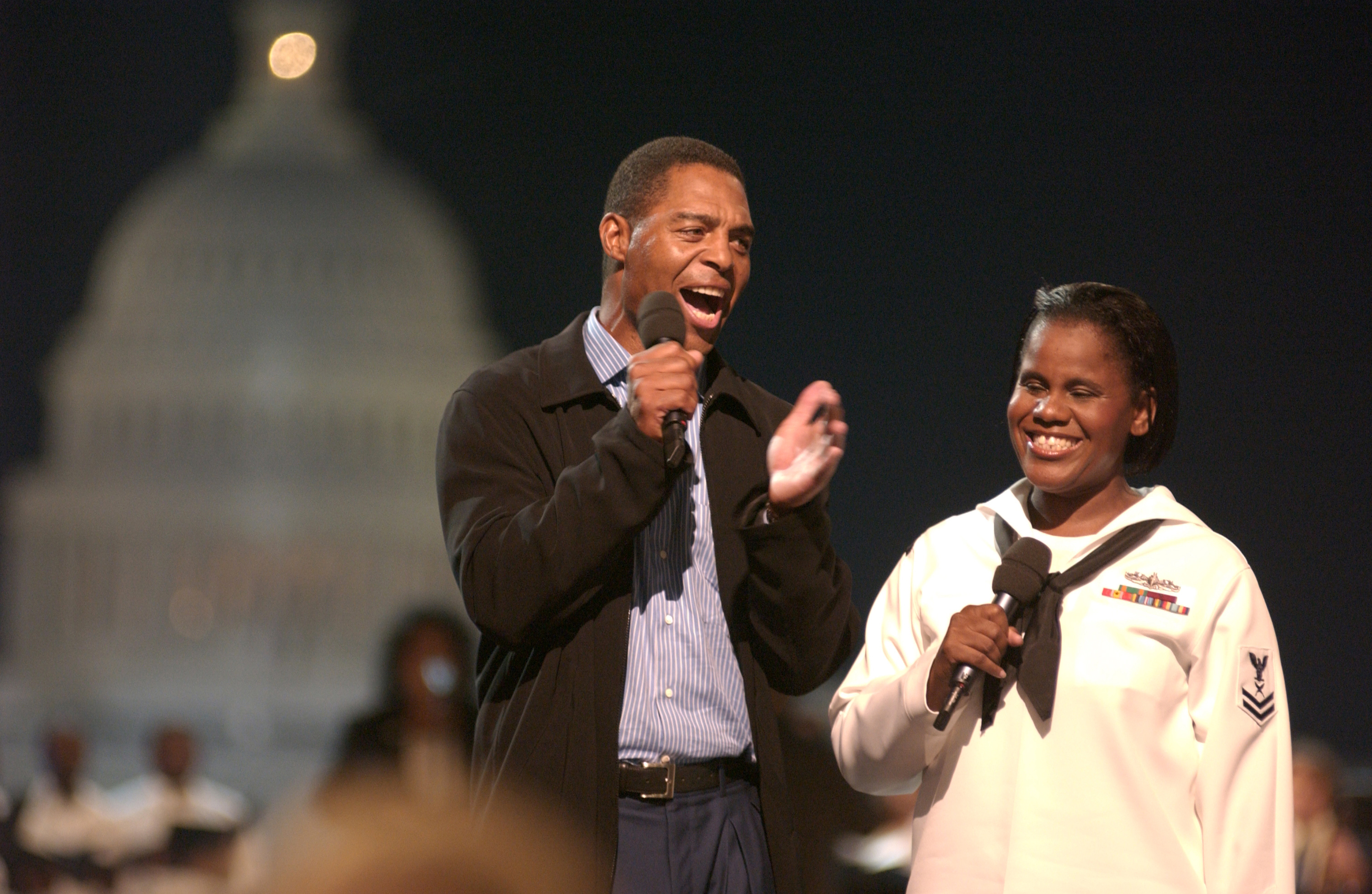 Washington D.C. (Sept. 4, 2003) – Yeoman 2nd Class Katherine Ward and professional football Hall of Fame member Marcus Allen introduce Aretha Franklin during a concert in tribute to U.S. military members on the National Mall. Operation Tribute to Freedom, the NFL and Pepsi sponsored the NFL Kickoff Live 2003 Concert with priority seating for military members and their families. Among the performers were Aerosmith, Britney Spears, Aretha Franklin, Mary J. Blige and Good Charlotte. Operation Tribute to Freedom (OTF) was set up by the Department of Defense as a way for Americans to show their appreciation to our men and women in uniform.